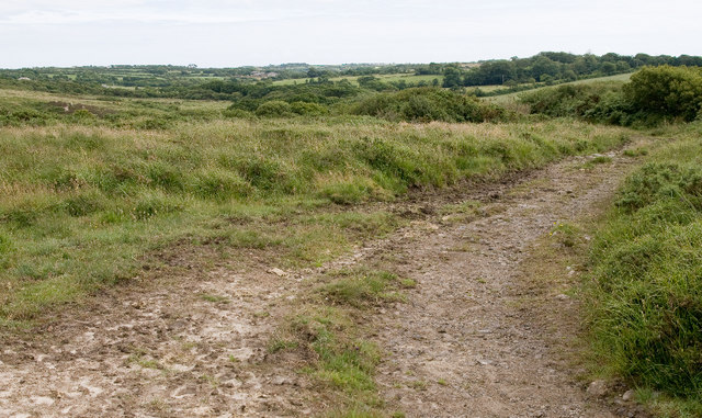 Bridleway nr Trenoon The bridleway leads from the cultivated land to the open common of Goonhilly Downs. In the far distance is Erisey Barton.